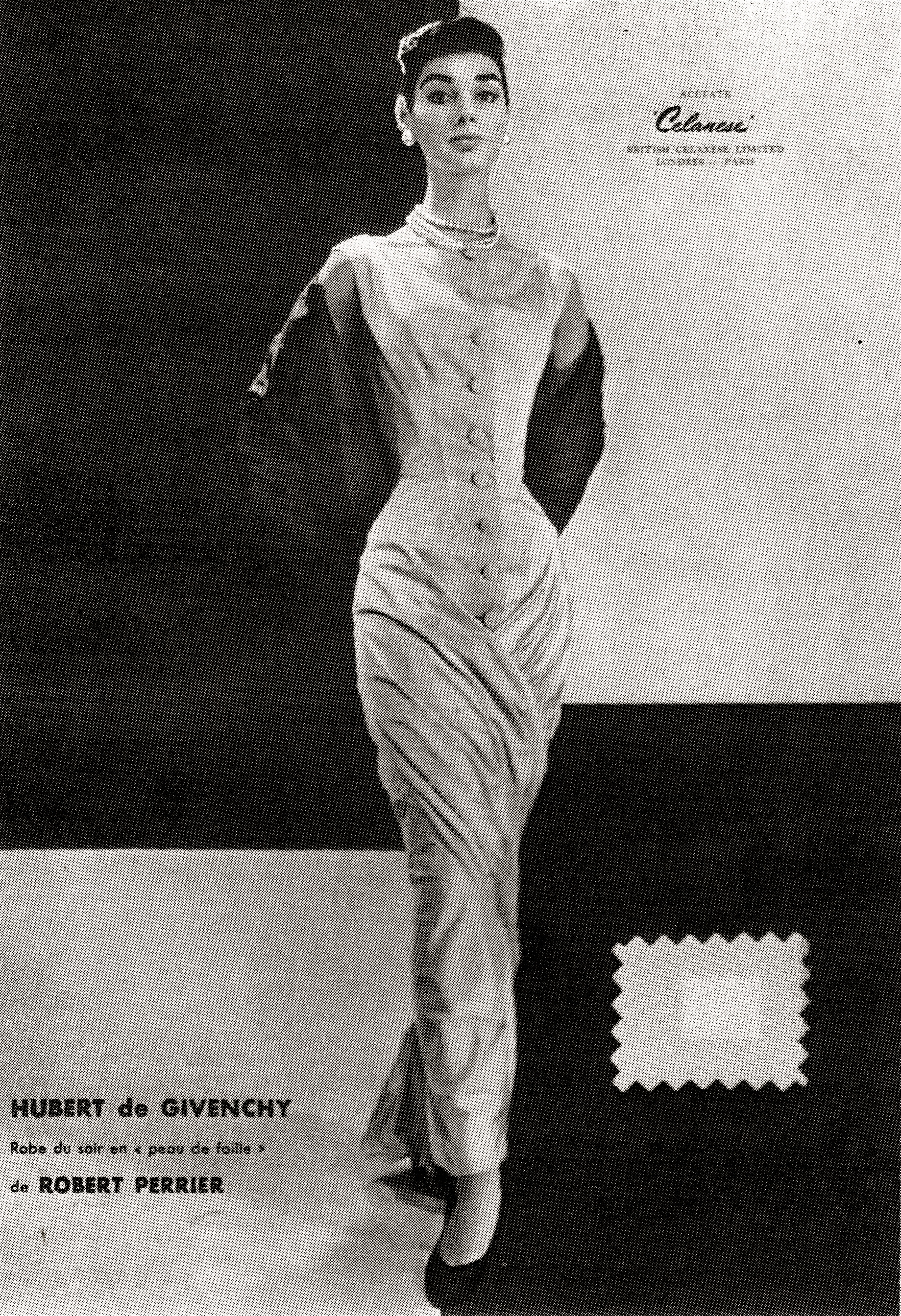 Publicity for evening gown. In “Peau de faille” acetate fabric by Robert Perrier for Hubert de Givenchy.